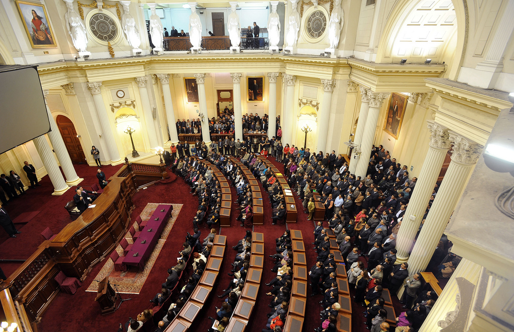 Panoramic hemicycle Raúl Porras Barrenechea, who formerly served as the site of meetings of the Senate.